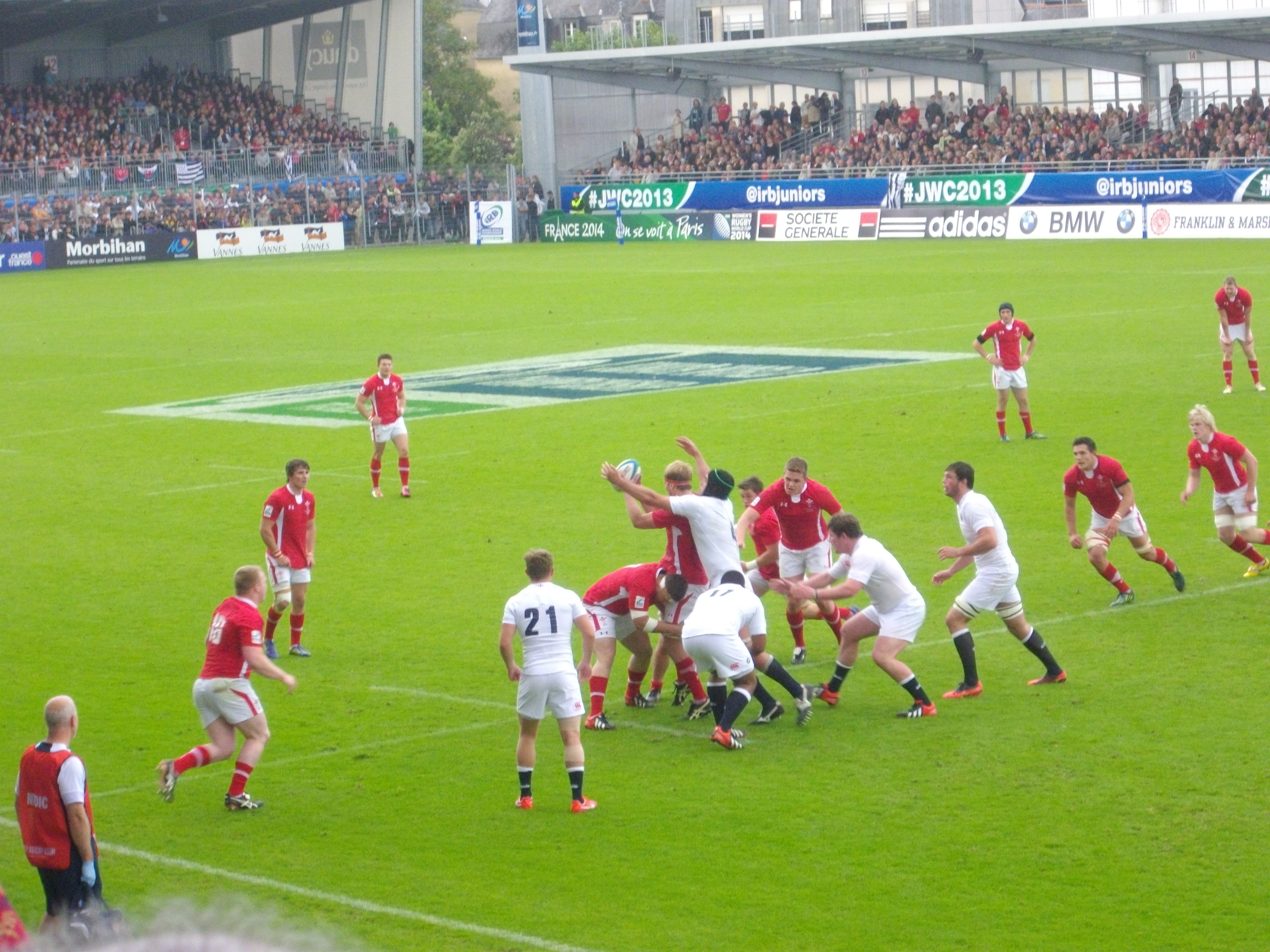 Final of the en:2013 IRB Junior World Championship, between England and Wales teams, in Rabine stadium of Vannes (Morbihan, France), 23 June 2013.